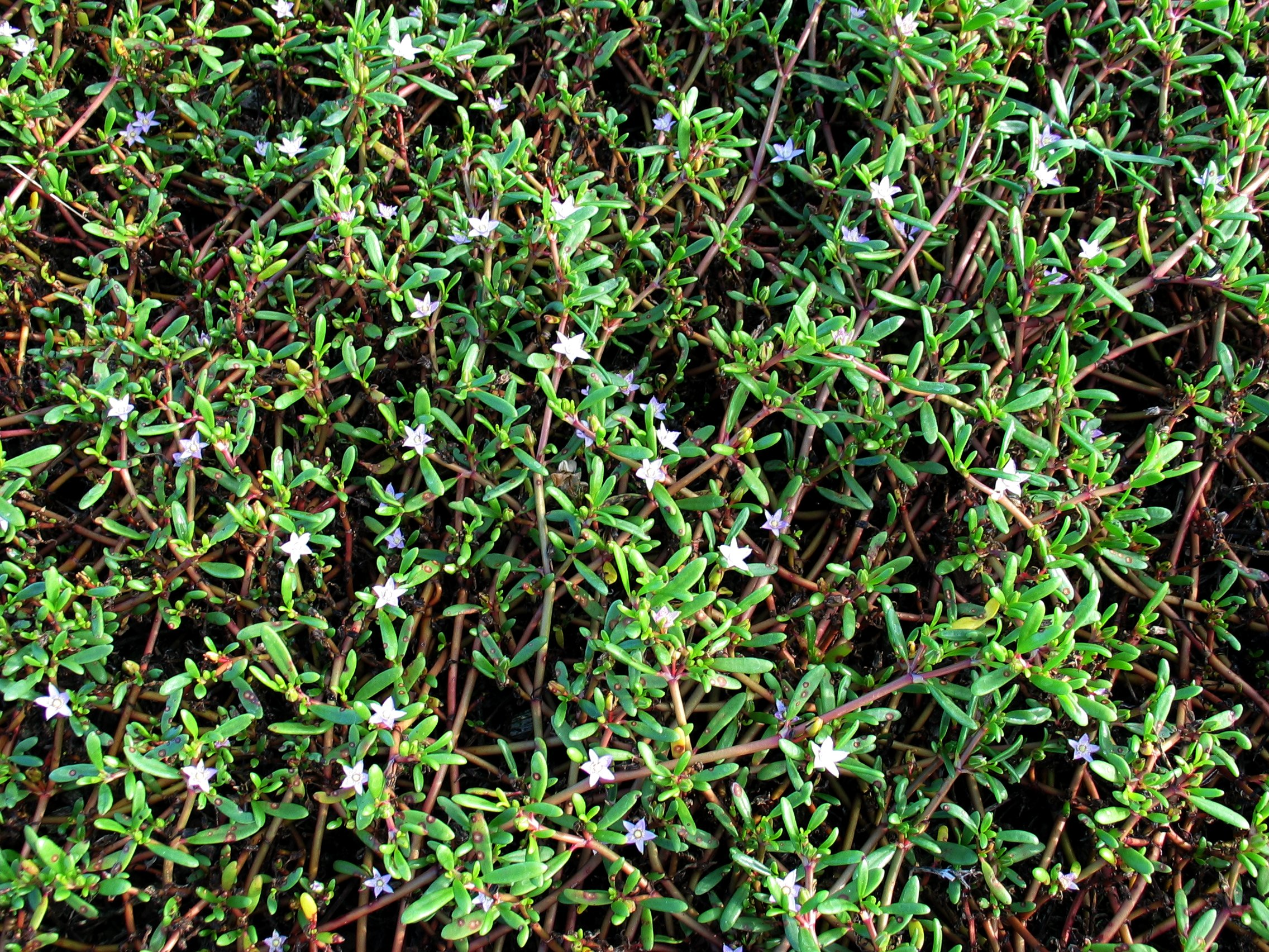 ʻĀkulikuli or Sea purslane Aizoaceae Indigenous to the Hawaiian Islands Oʻahu (Cultivated) All fleshy parts are said to be edible and can be eaten raw or cooked. The flavor has a slight salty taste and appears to hold this saltiness whether grown in a seaside environment or not. NPH00003